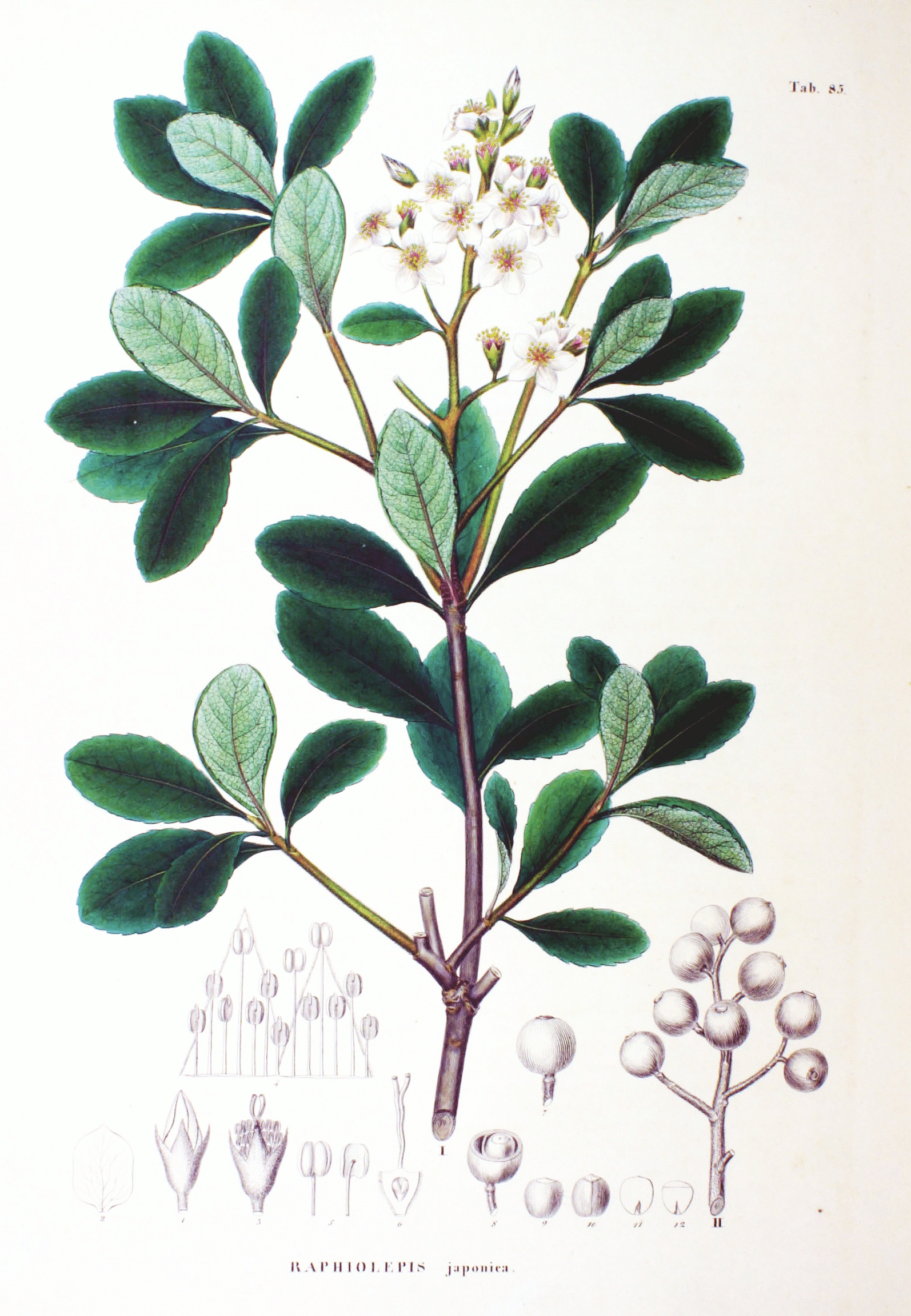 Plate from book